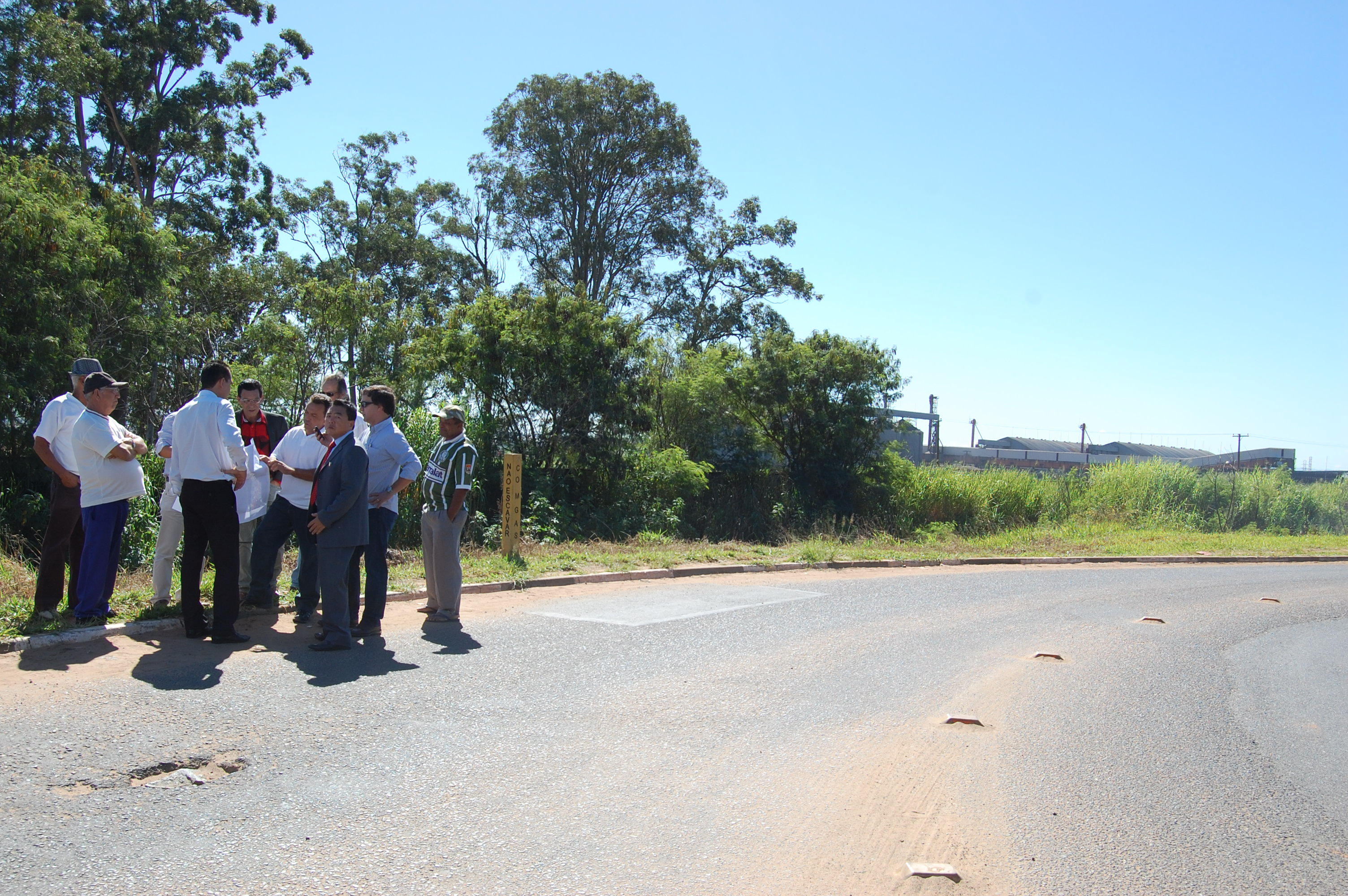 Passage of the Rodovia dos Bandeirantes in Hortolândia, São Paulo, Brazil.